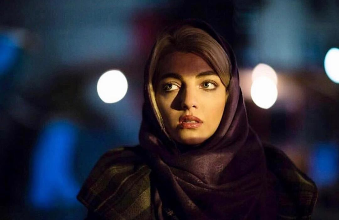 Aida Mahiani in Delighted